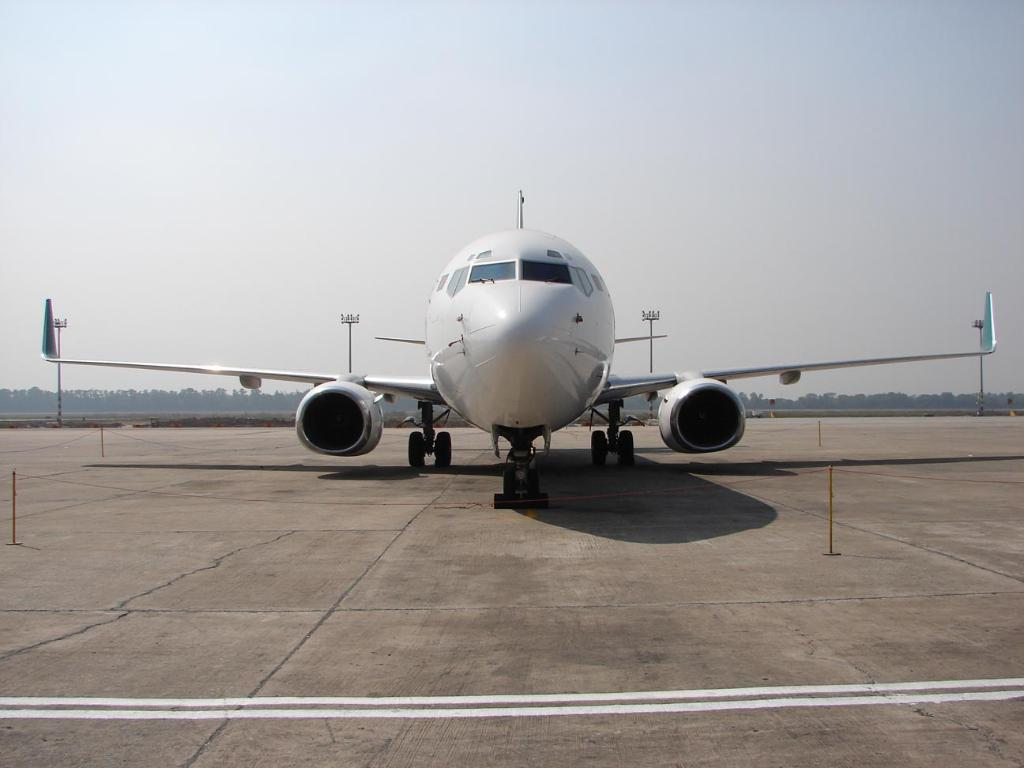 Biman's leased Boeing 737-800 at Zia International Airport (Nose View).